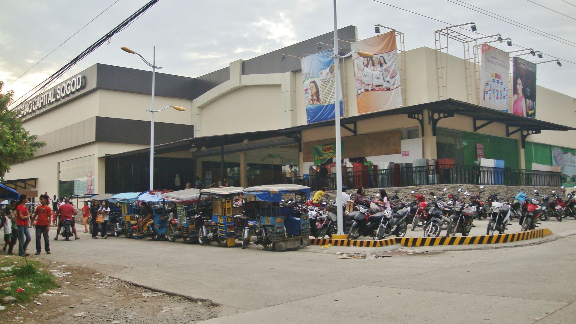 Gaisano Capital Sogod - first ever built mall in Southern Leyte